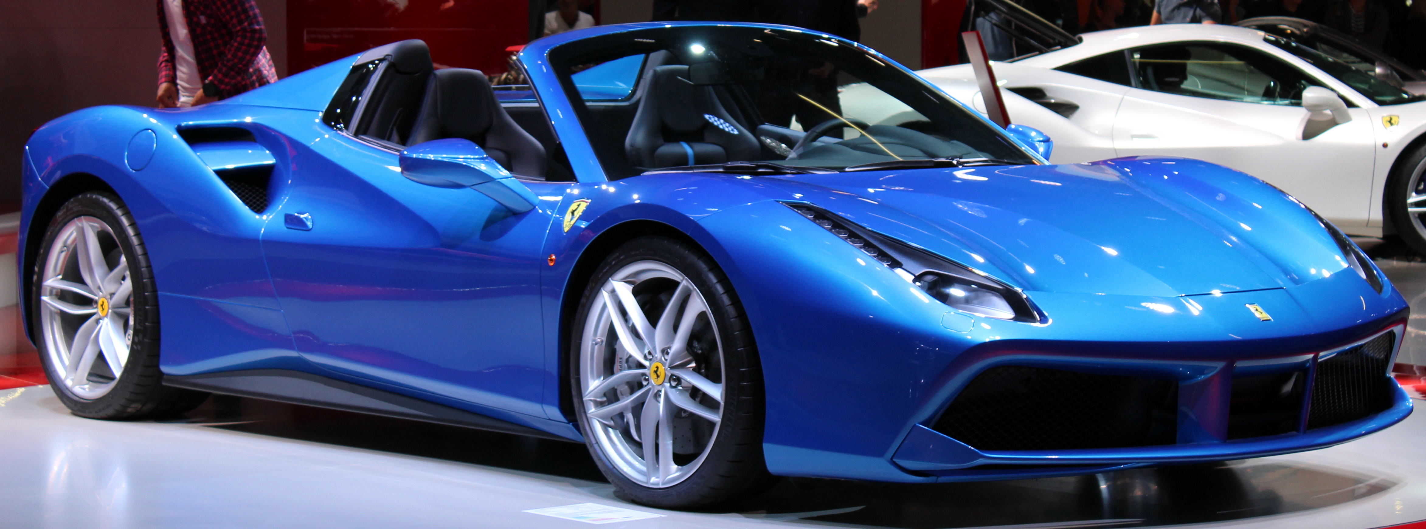 Passenger vehicles being displayed in 2015 International Motor Show Germany.